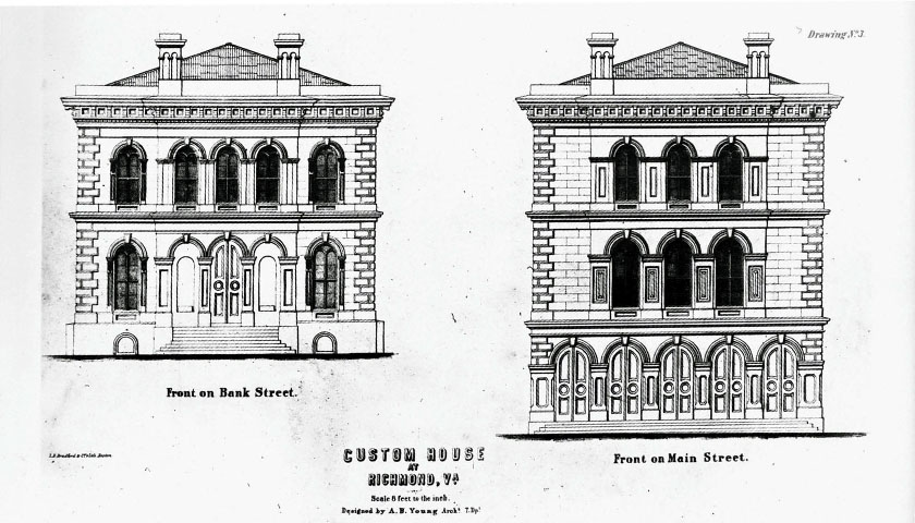 U. S. General Services Administration, Architect's Drawings, Volume 3, Public Buildings in the Course of Construction under Treasury Department. 1856. Drawing No. 3 of 14.